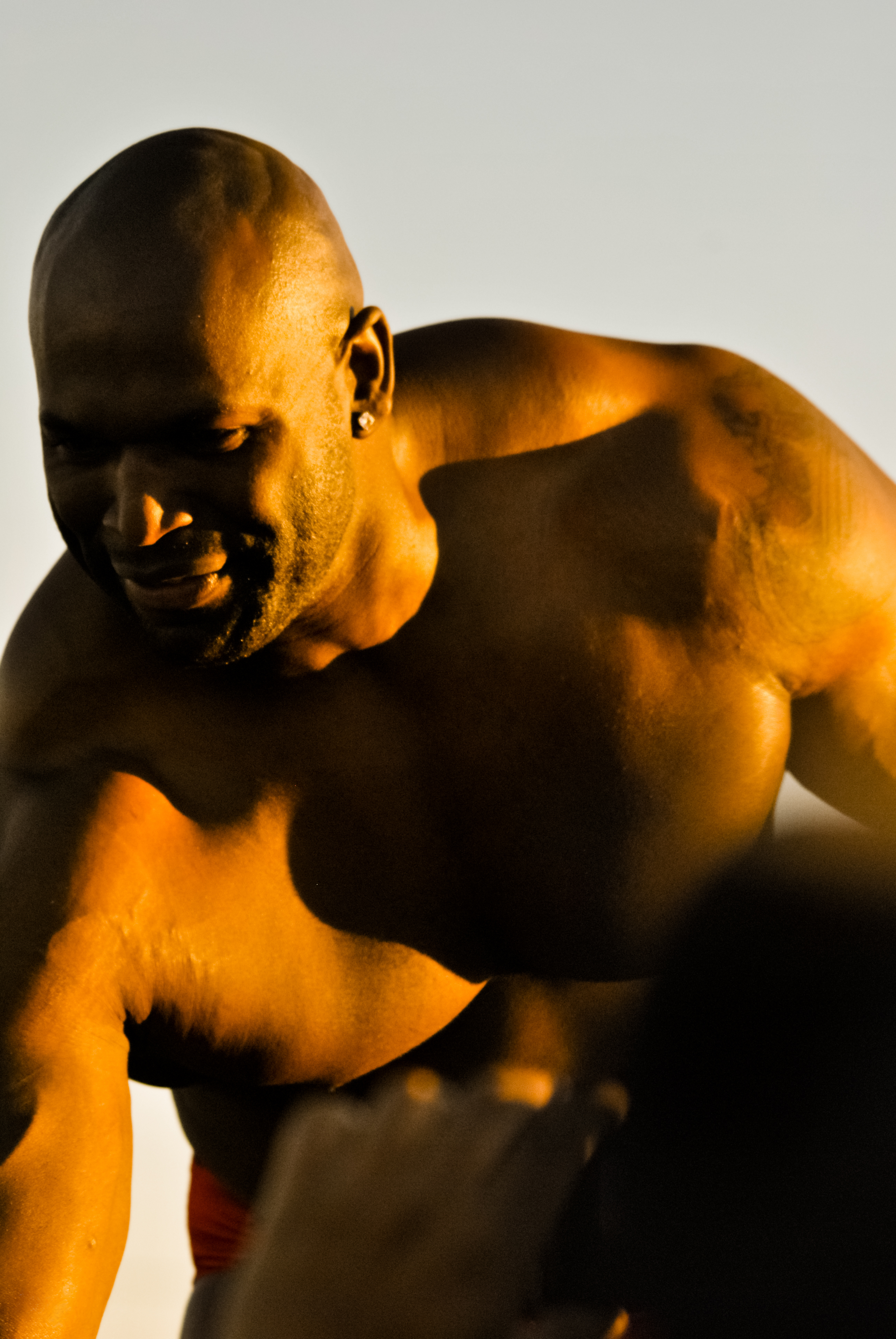 Ezekiel Jackson at WWE's 2010 Tribute to the Troops show in Fort Hood, Texas.